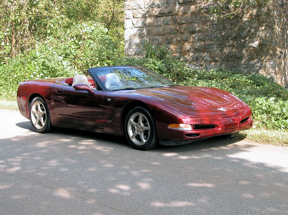 2003 50th Anniversary Corvette Convertible